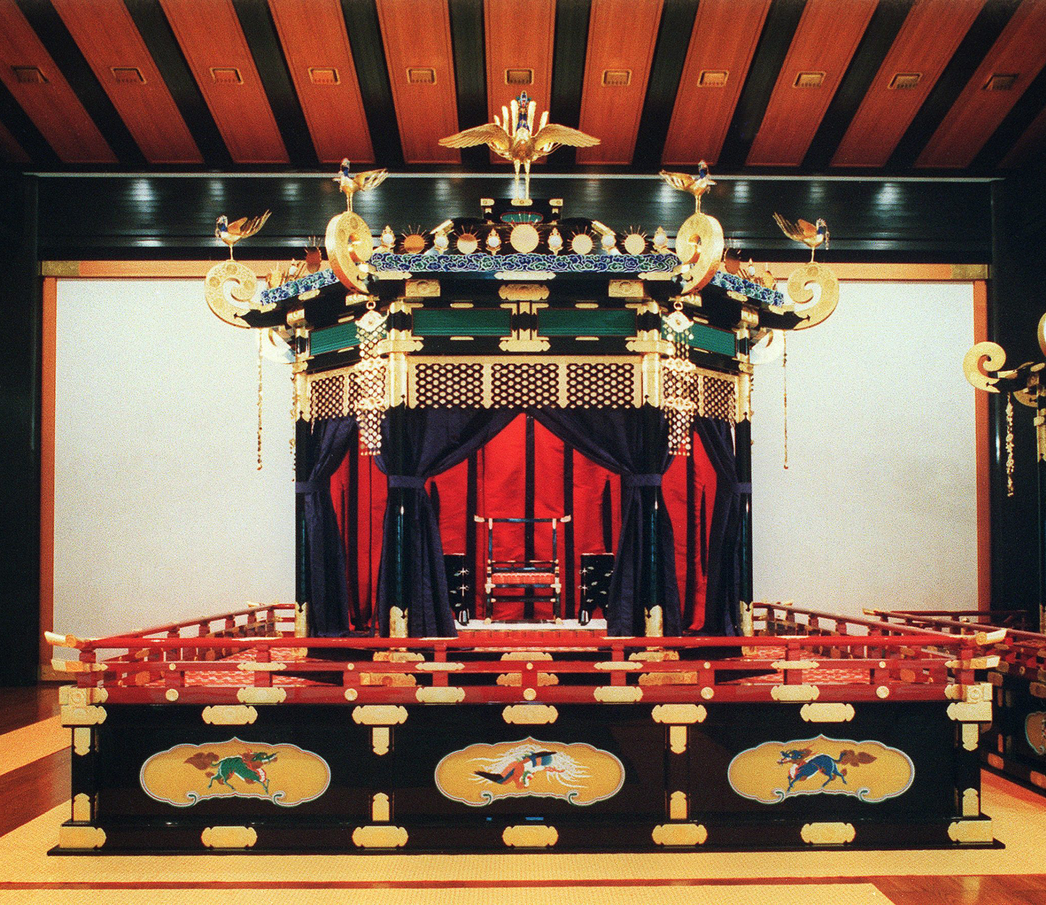 Photo of the Imperial throne called "Takamikura".